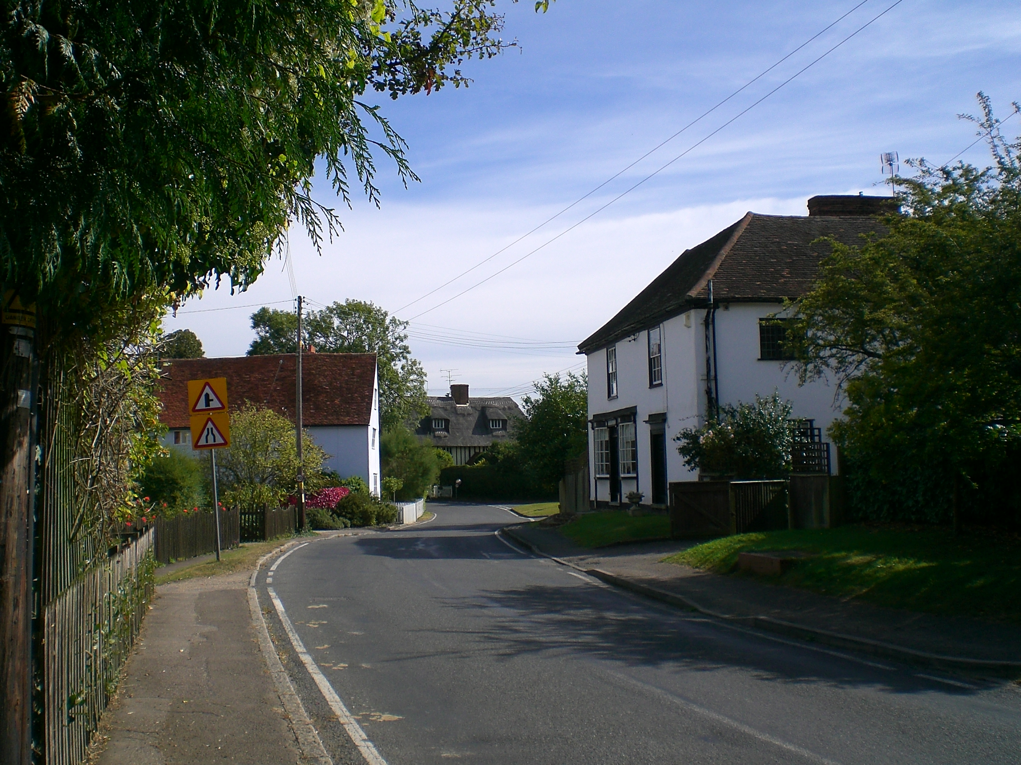 A street of Berden